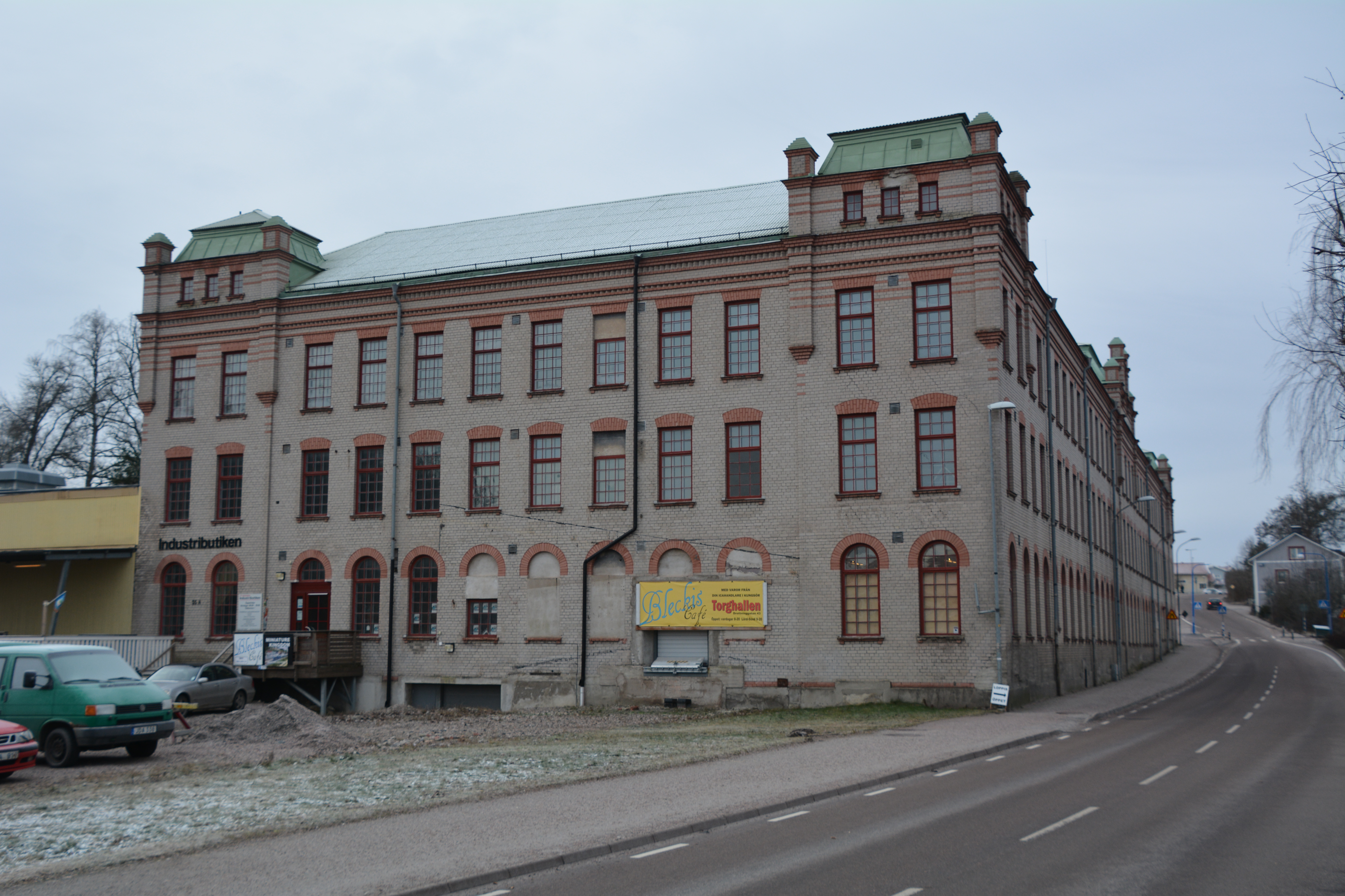 Kungsörs Bleckkärlsfabrik